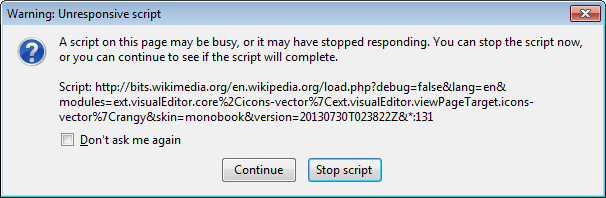 Screenshot of Firefox 22.0 dialog box in Windows 7 showing an unresponsive JavaScript warning. This message appears (as of July 30, 2013) when trying to use the Visual Editor to edit a large page on English Wikipedia.